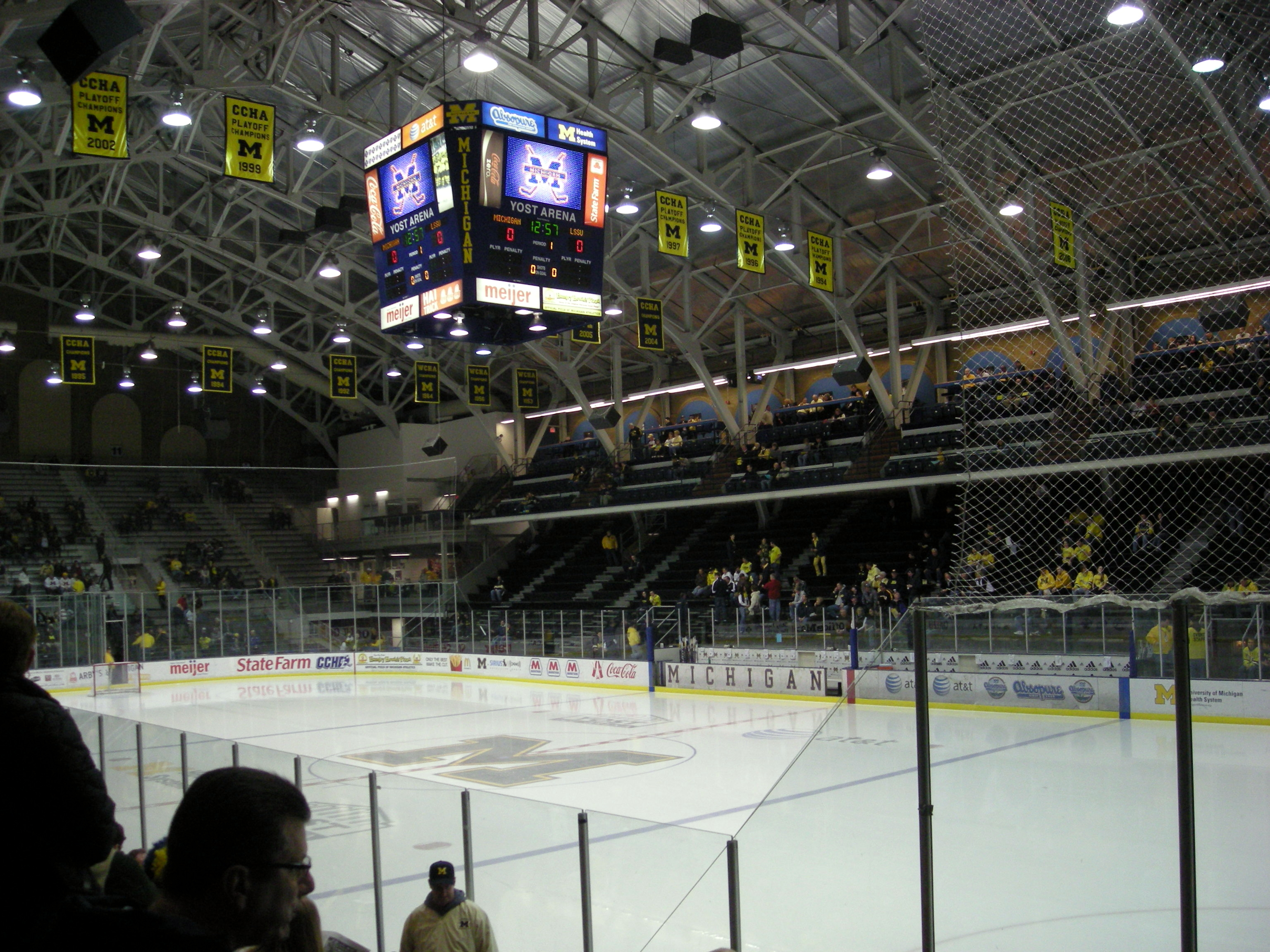 The interior of the arena during the Lake Superior State Lakers vs. Michigan Wolverines men's ice hockey game at Yost Ice Arena in Ann Arbor, Michigan (United States). Michigan won 5–2.